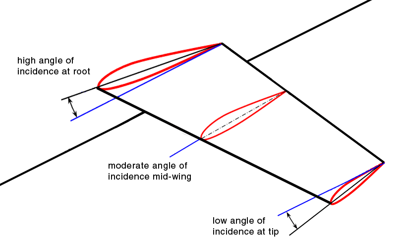 Diagram showing how the angle of attack of aircraft wings is varied from from root to tip